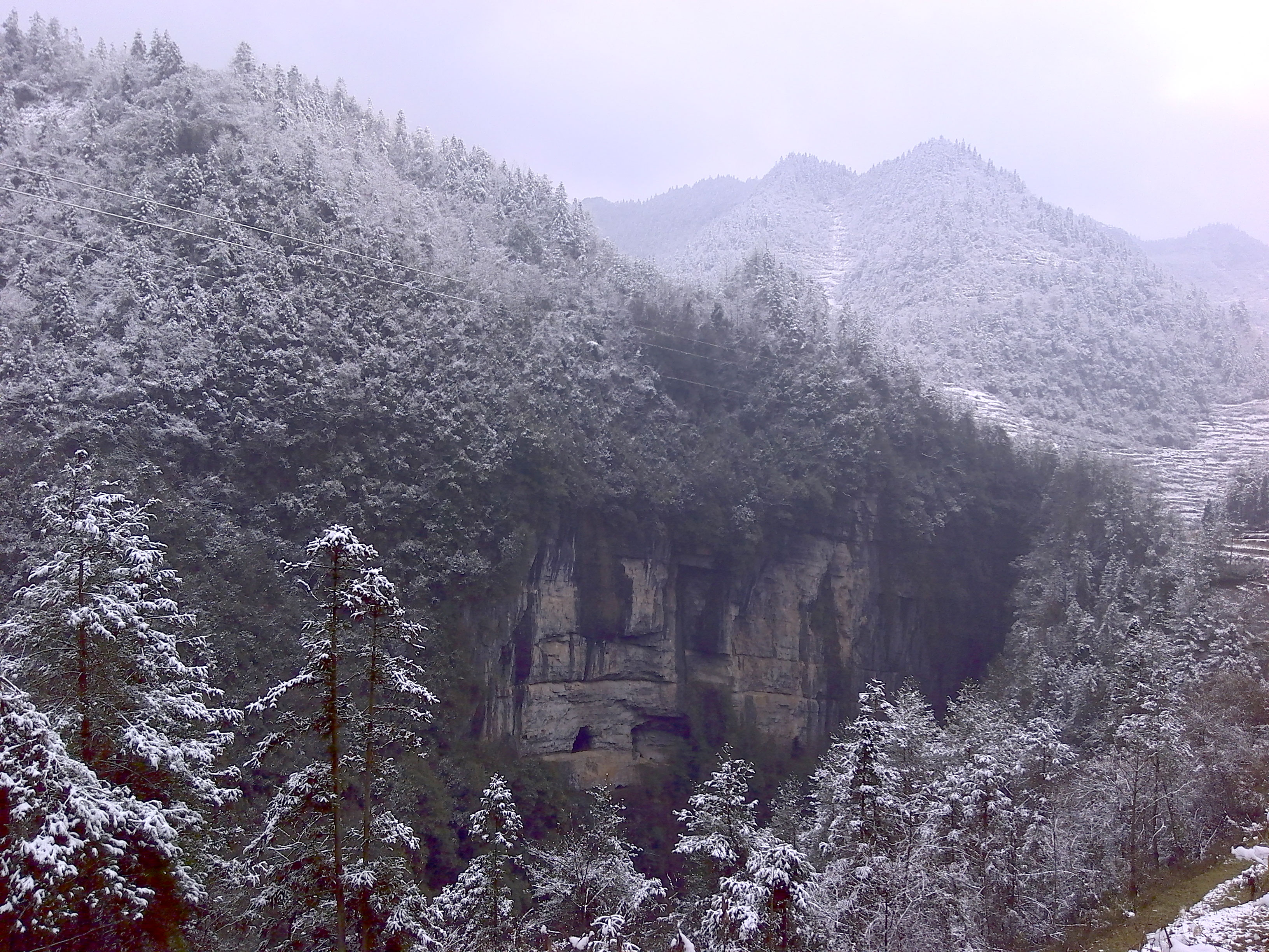 Niubizidong Tiankeng during the winter. Located in the Qingkou Tiankeng cluster of the Wulong Karst.